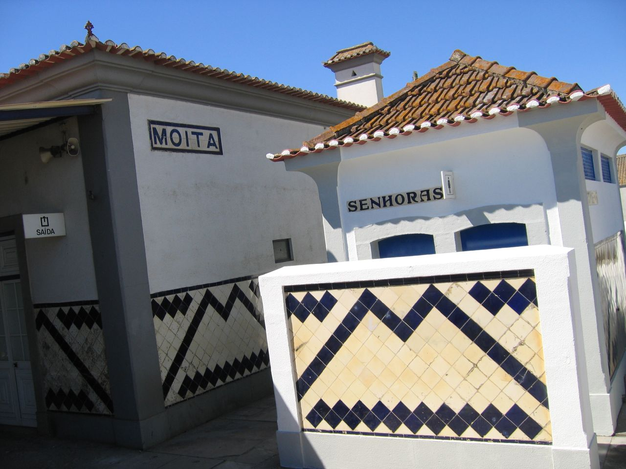 Railway Station of Moita